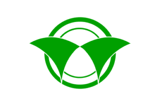 Flag of Nishinoshima Shimane